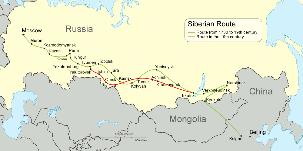 Siberian route schematic map.